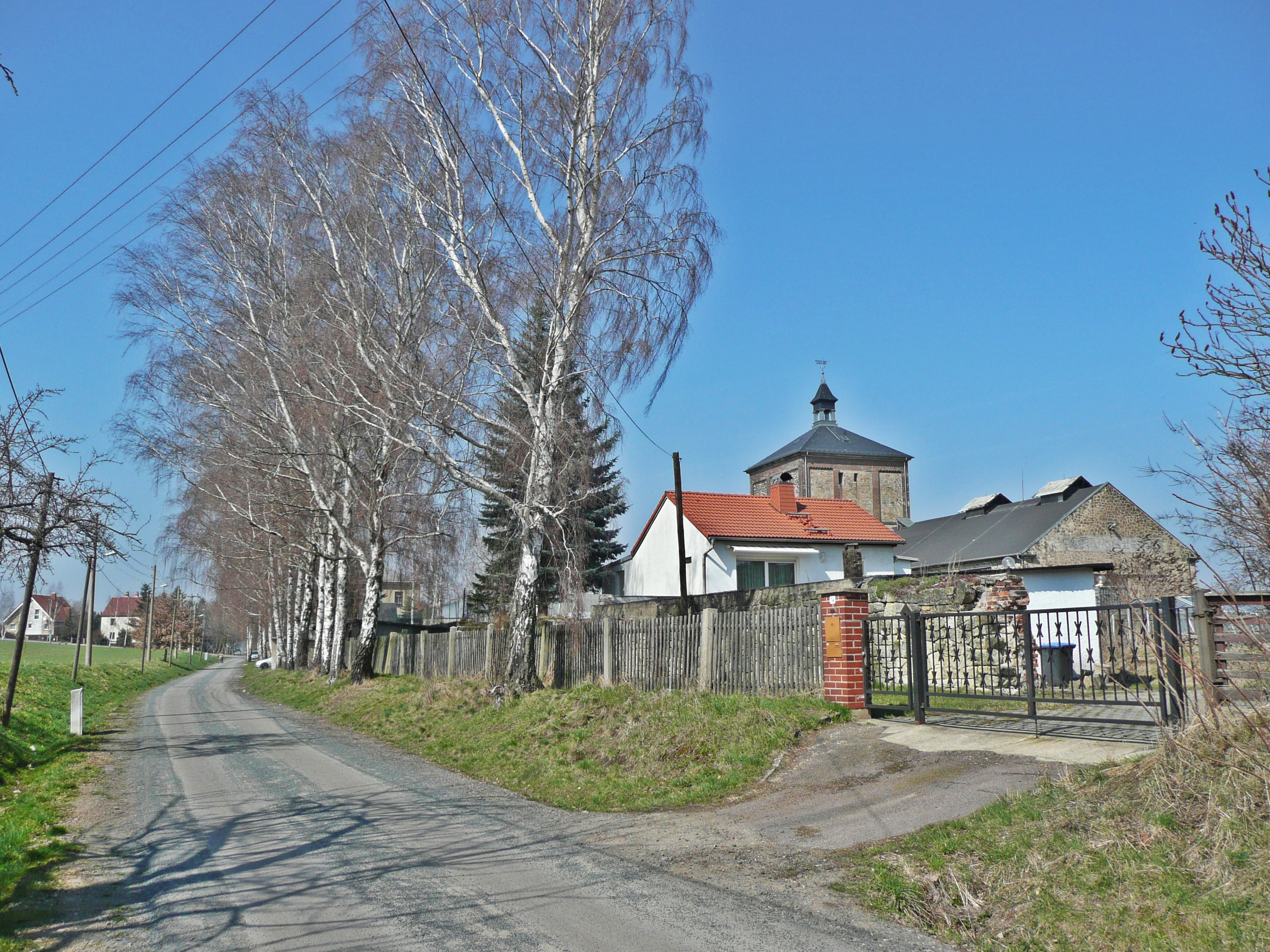 This image shows the "Windbergbahn", a former saxon railway line from Freital to Possendorf, near the Marien-shaft (former coal mine) in Bannewitz. The line was closed in the 1990's.